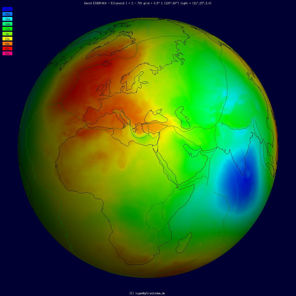 Geoid undulation in false color, to scale.